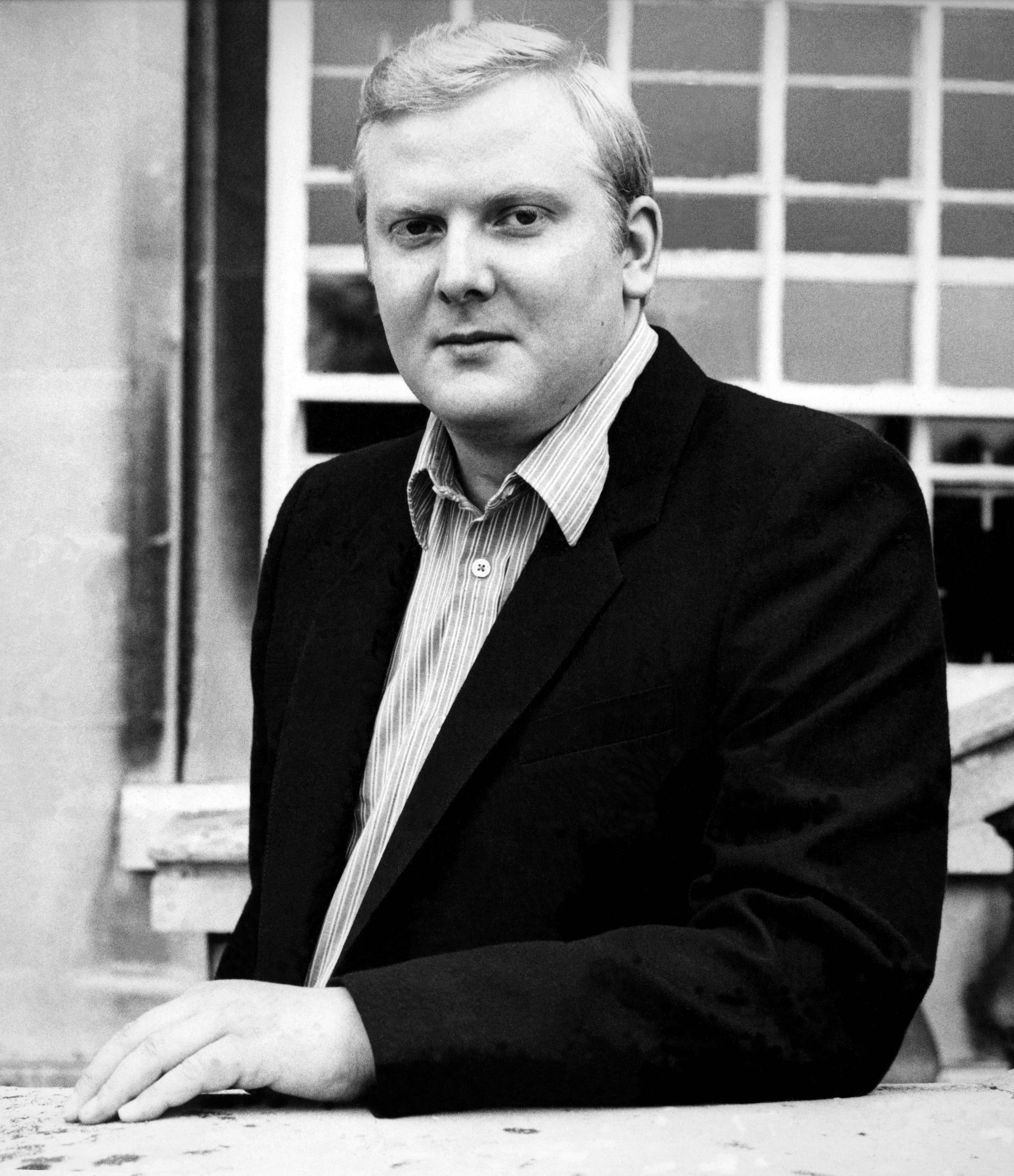 Henry Percy, 11th Duke of Northumberland, outside Syon House